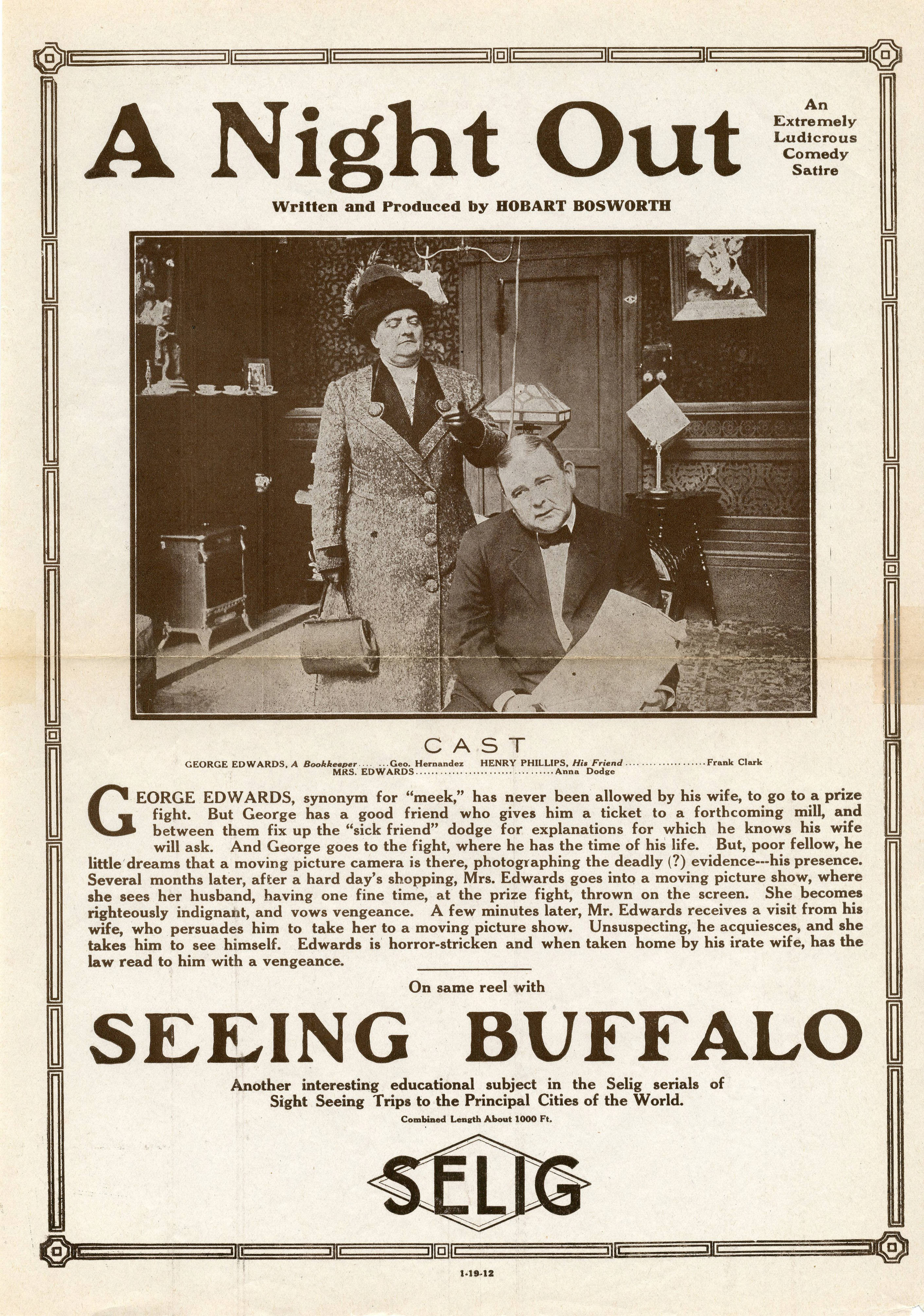 Release flier for A NIGHT OUT, 1912